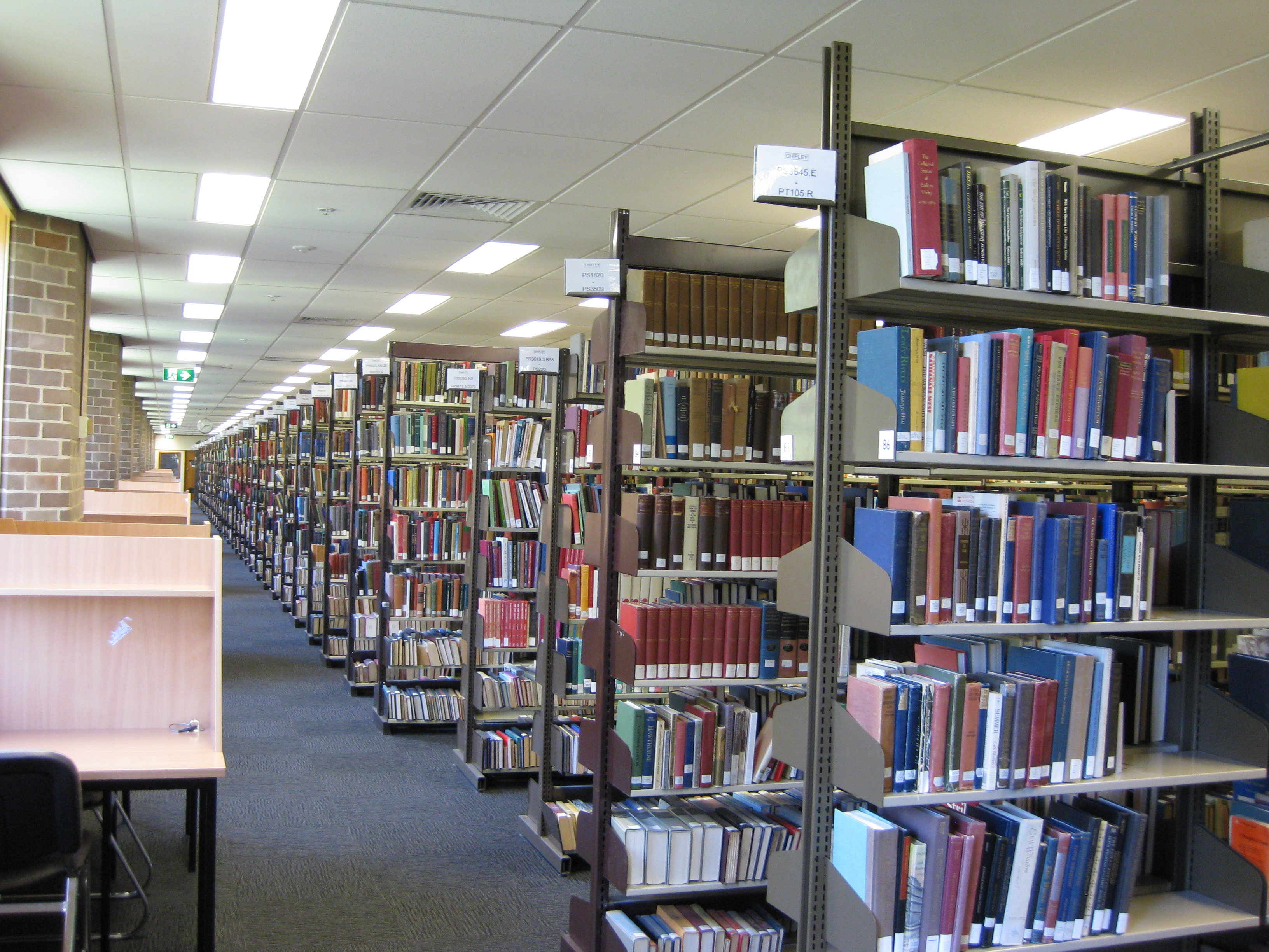 Bookshelves on the top floor of the Australian National University's Chifley Library